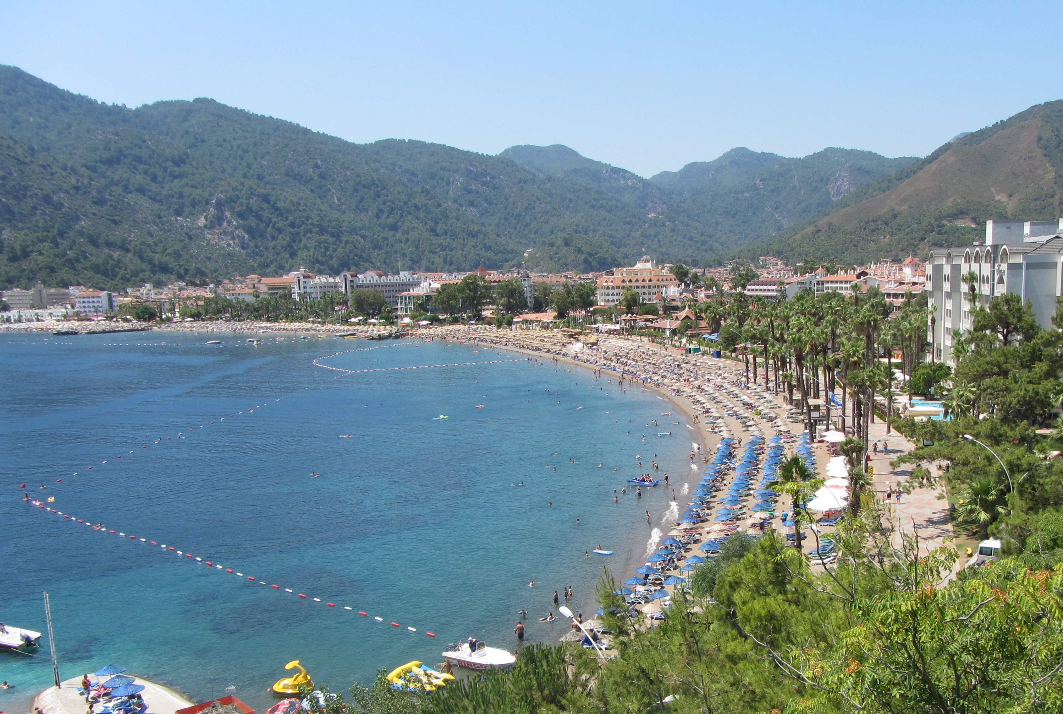 Marmaris beach, Turkey